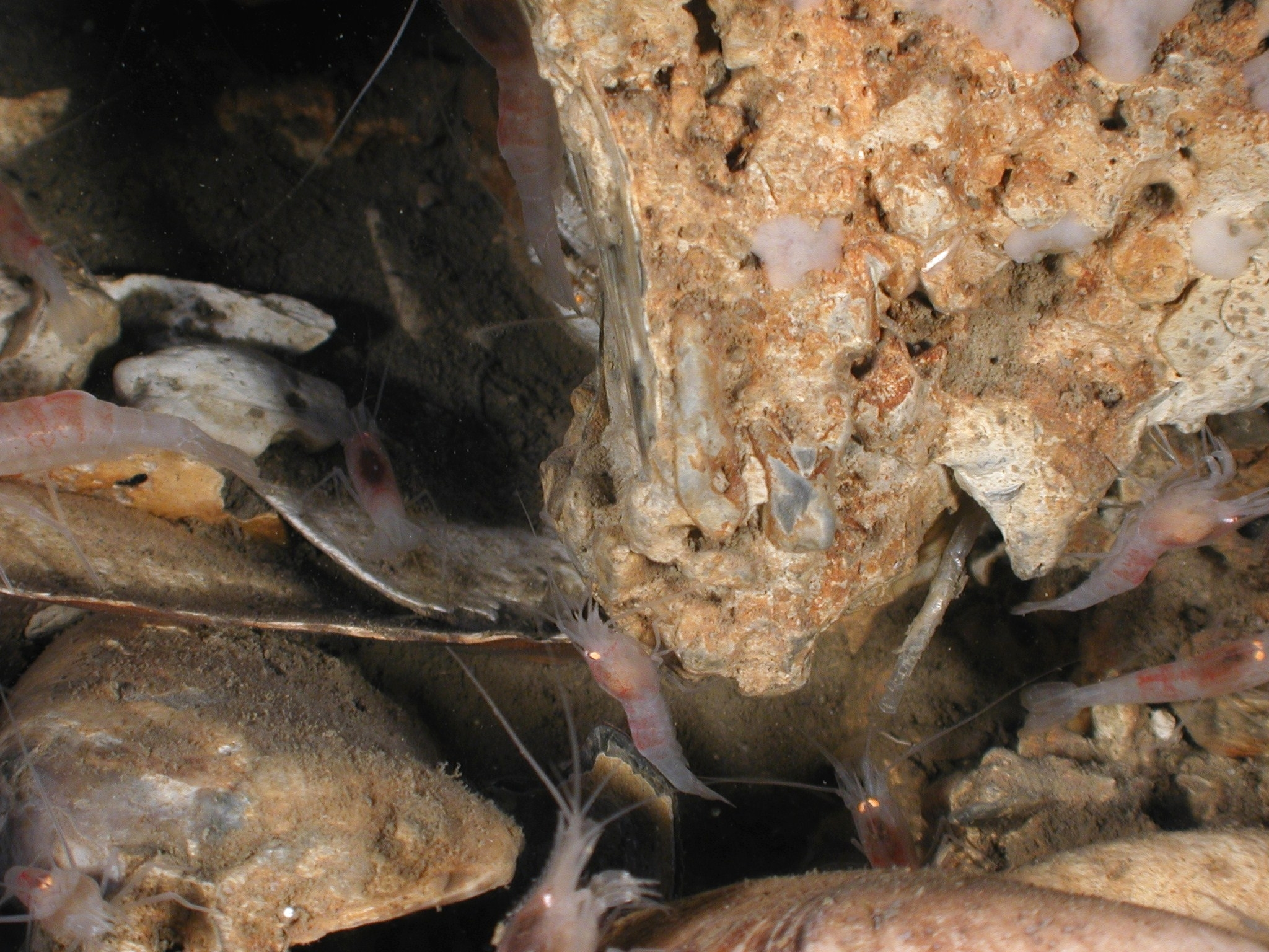 Operation Deep Slope 2007. Shrimp at a chemosynthetic cold seep site. Gulf of Mexico.